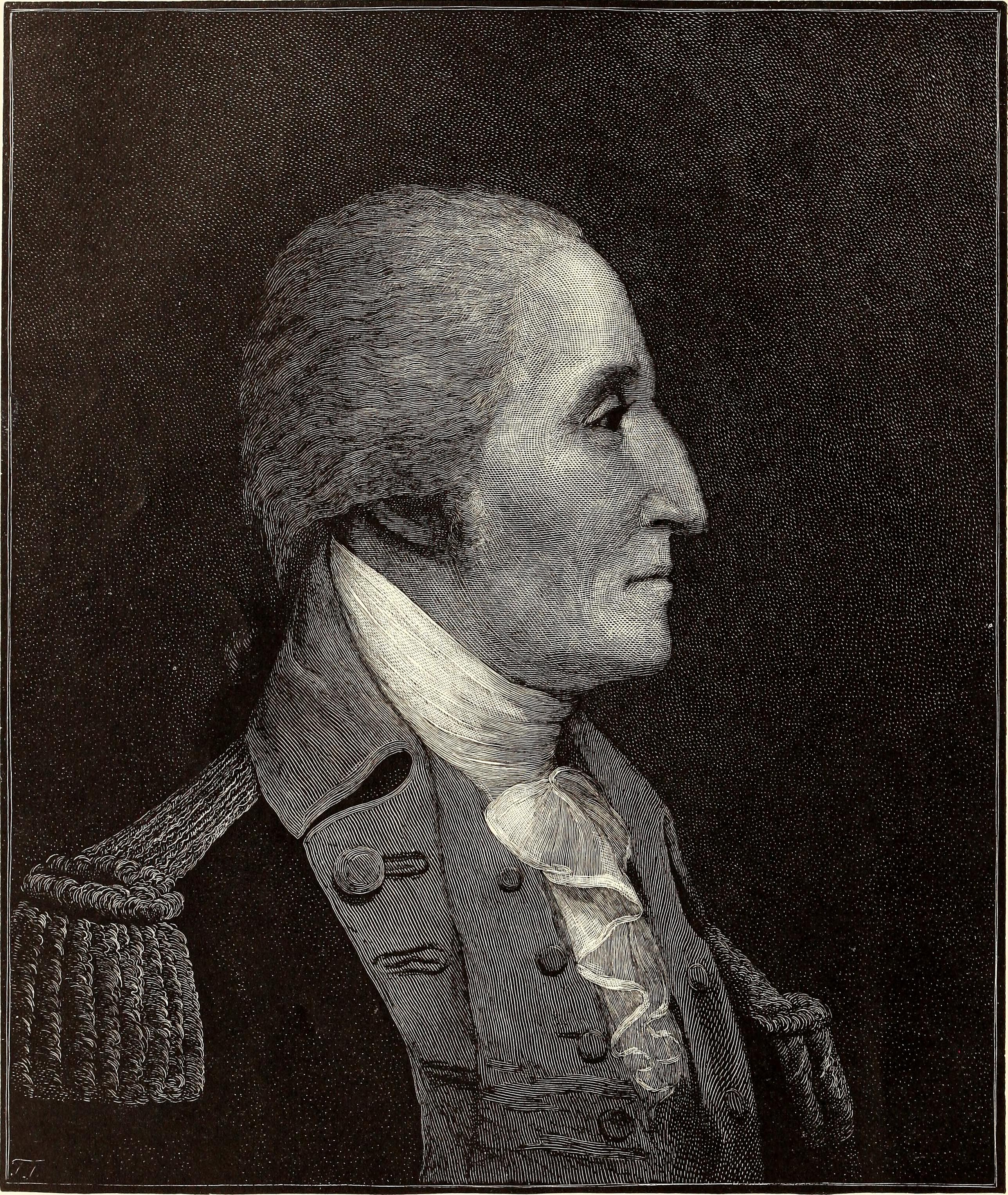 Title: The century illustrated monthly magazine Year: 1882 (1880s) Authors: Subjects: American literature Publisher: New York : Century Co. Text Appearing Before Image: . We used to joke withthem, and tell them we were as much El-moran(warrior) as themselves. This, however, theywould not admit; arguing that nobody couldbe an El-moran unless, like them, he dis-dained all food save beef and milk. A littletact and plenty of patience is all that is neces-sary in dealing with most savages. A savageis naturally an amiable creature. It is becausehe does nt understand you nor you him, thatyou sometimes have to fight him. Note by the Bi.air Camera Co. :—Readers of the above will recognize in this and other similar articles mentioned appearingin May, the same tact that enabled Mr. Stevens to accomplish his trip around the world on a bicycle. Without the Hawk-Eye, how-ever, the pleasure of the thousands of Century readers would have been greatly lessened, and in this connection attention is called toour announcement on advertising page 51 of this magazine, by which doubtless many will be convinced that a Hawk-Eye is a neces-sary part of every vacation outfit. Text Appearing After Image: PAINTED BY JAMES WRIGHT. ENGRAVED BY T. JOHNSON. OWNED BY G. L. MCKEAN